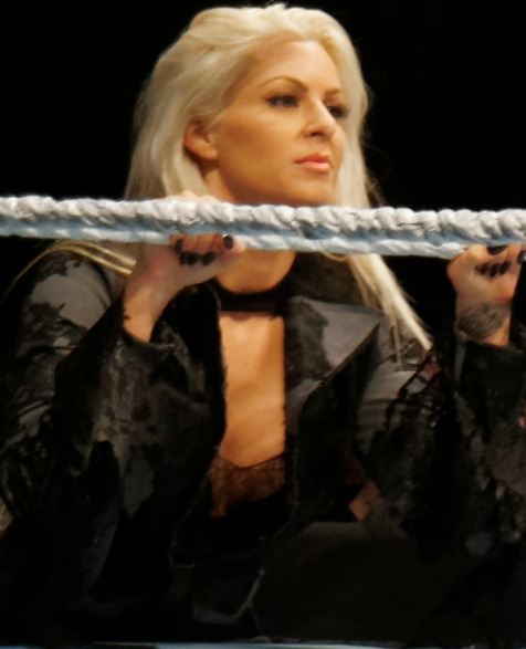 Maryse during a WWE live event in April 2016.